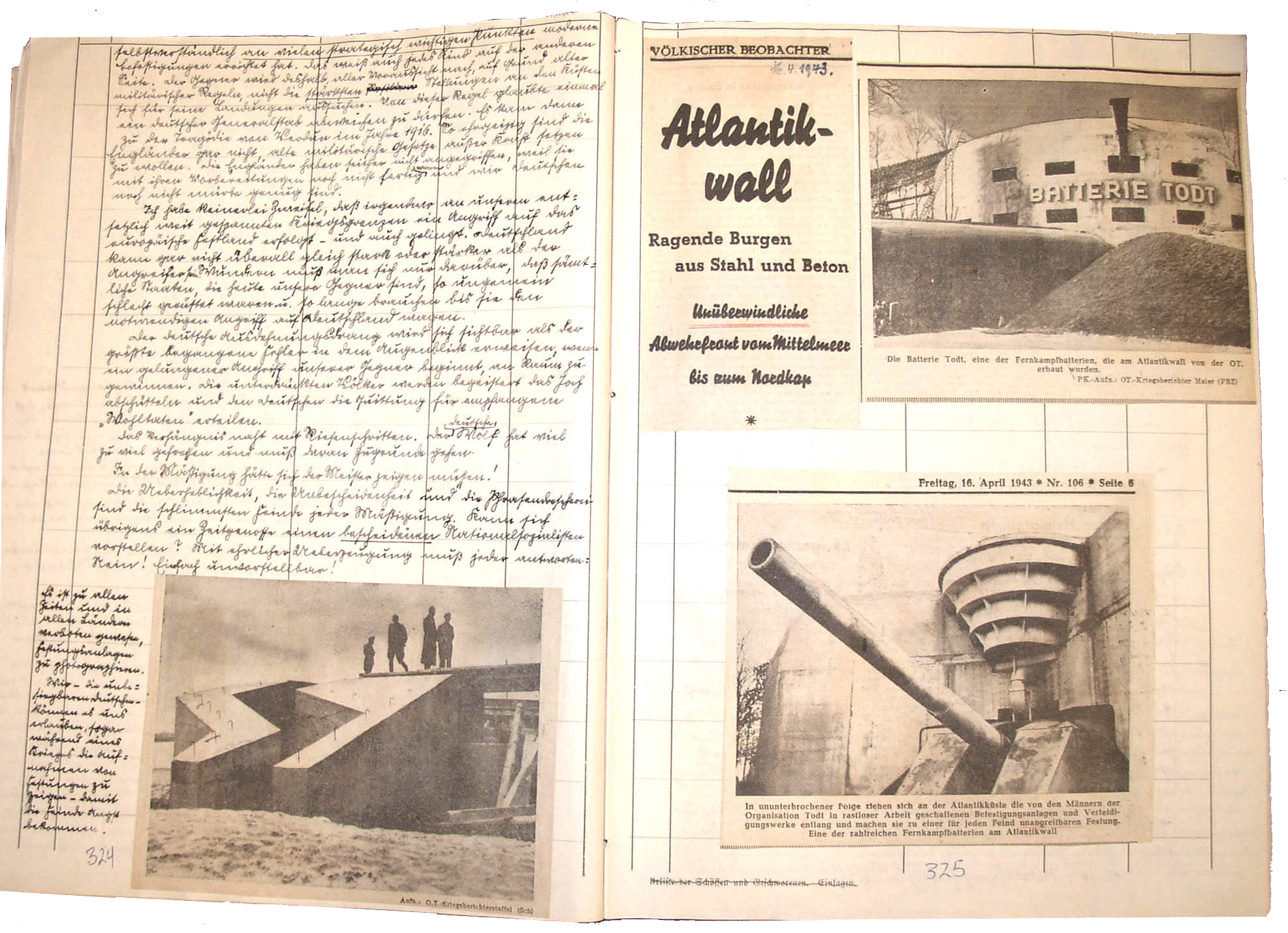 These are two pages in one of the ten volumes of the Friedrich Kellner diary. This is part of the April 25, 1943, entry about the Atlantic Wall fortifications. "This will not stop the Allies."